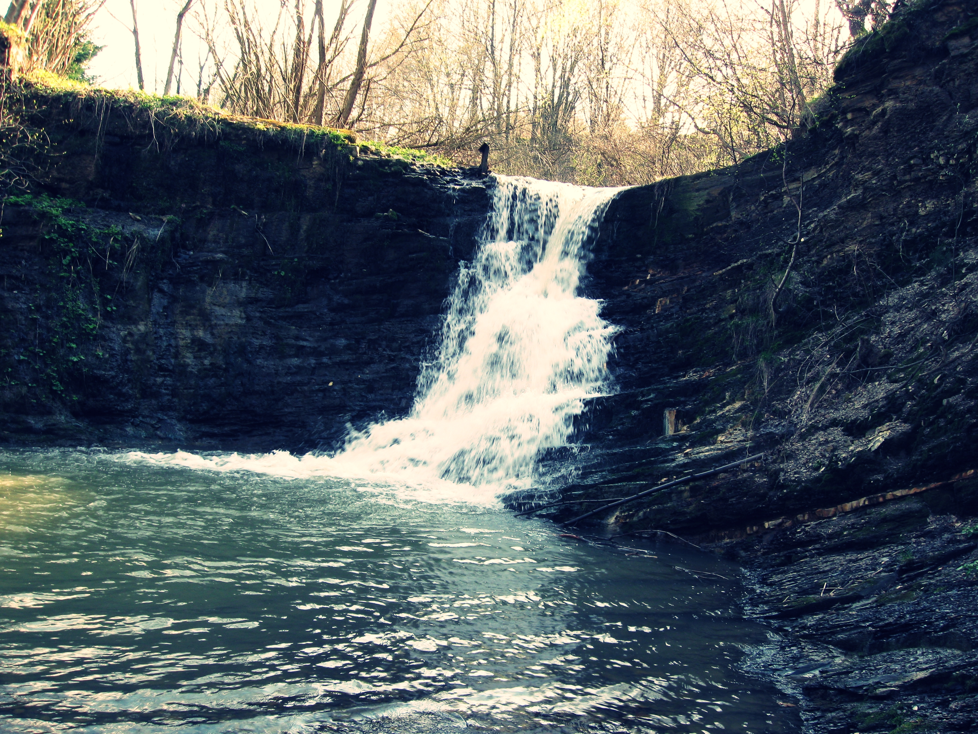 Waterfall in Iwla